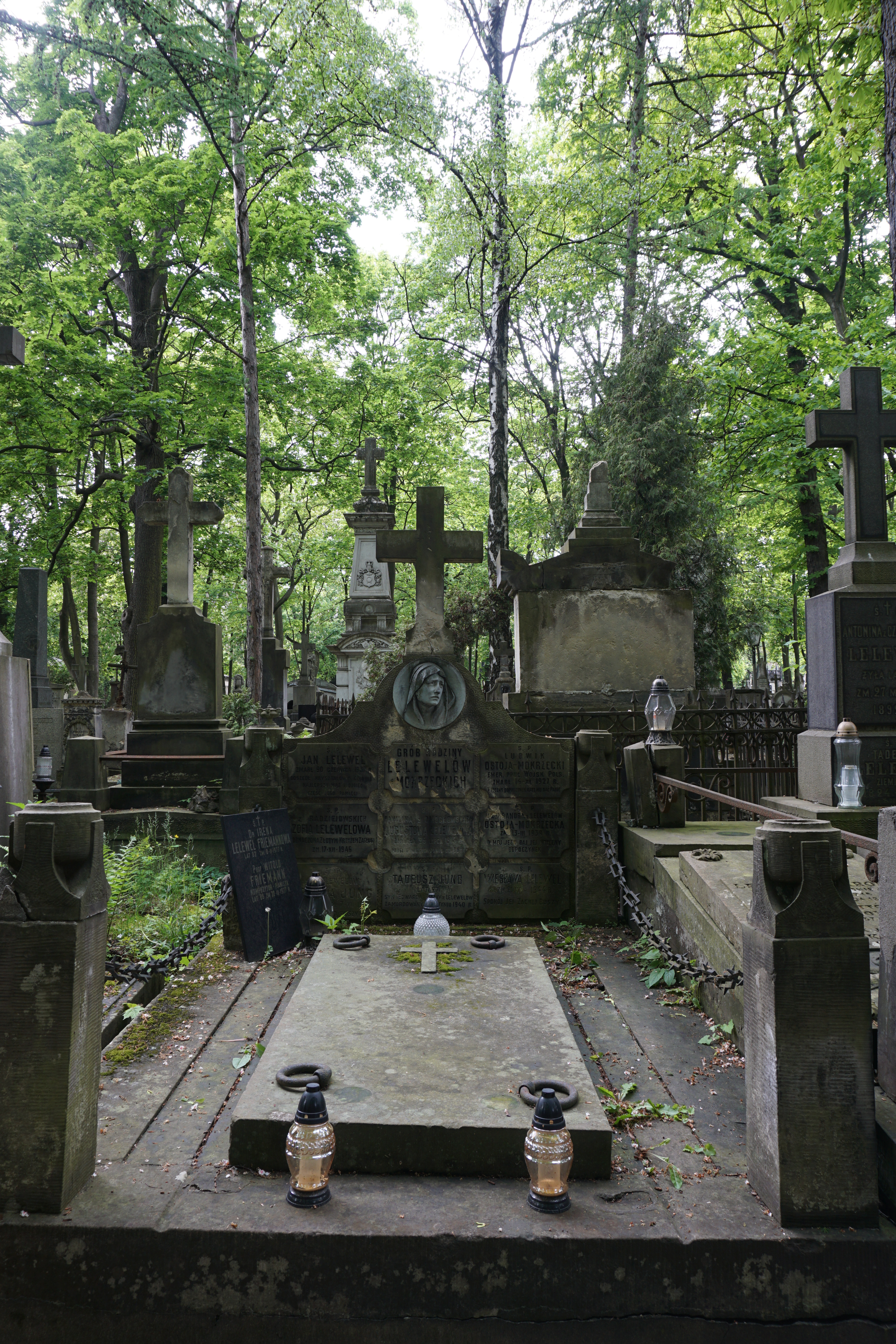 The grave of Witold Friemann at the Powązki Cemetery (section 12, row 5, grave 9, 10)